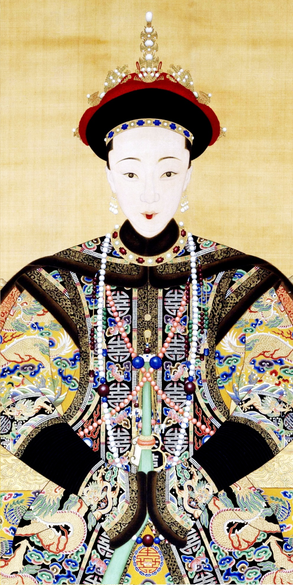 The Posthumous Empress Xiaodexian, first consort of Xianfeng Emperor of the Qing dynasty